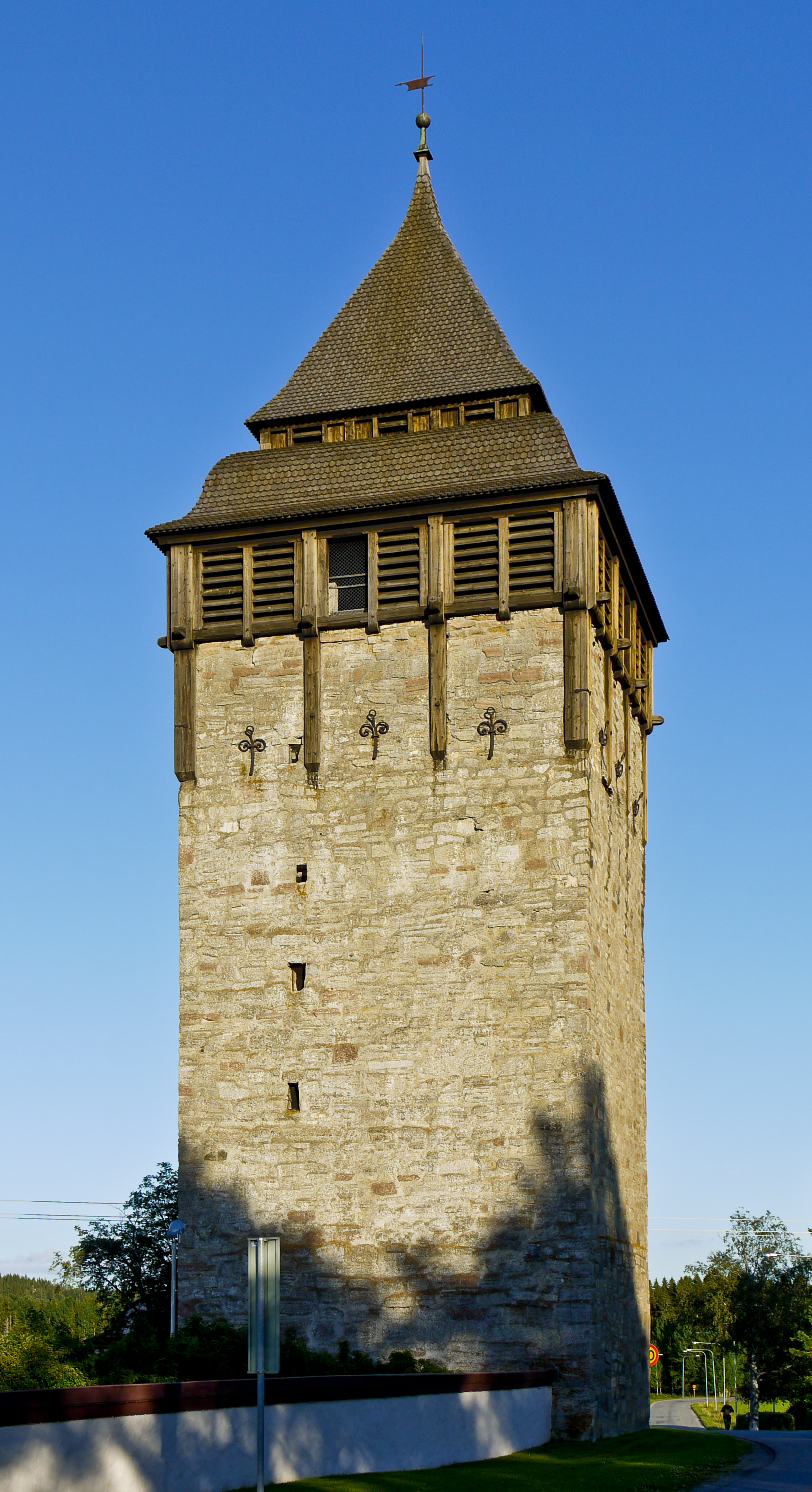 Kastal. Brunflo kyrka/church. Diocese of Härnösand. Östersund kommun. Jämtland. Sweden.